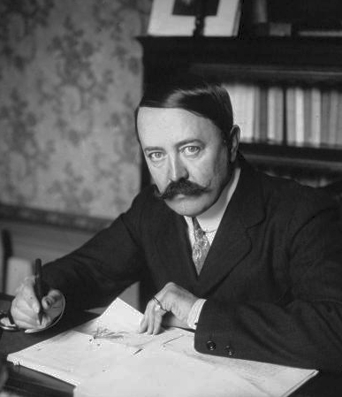 French writer and playwright Marcel Prévost (1862-1941).